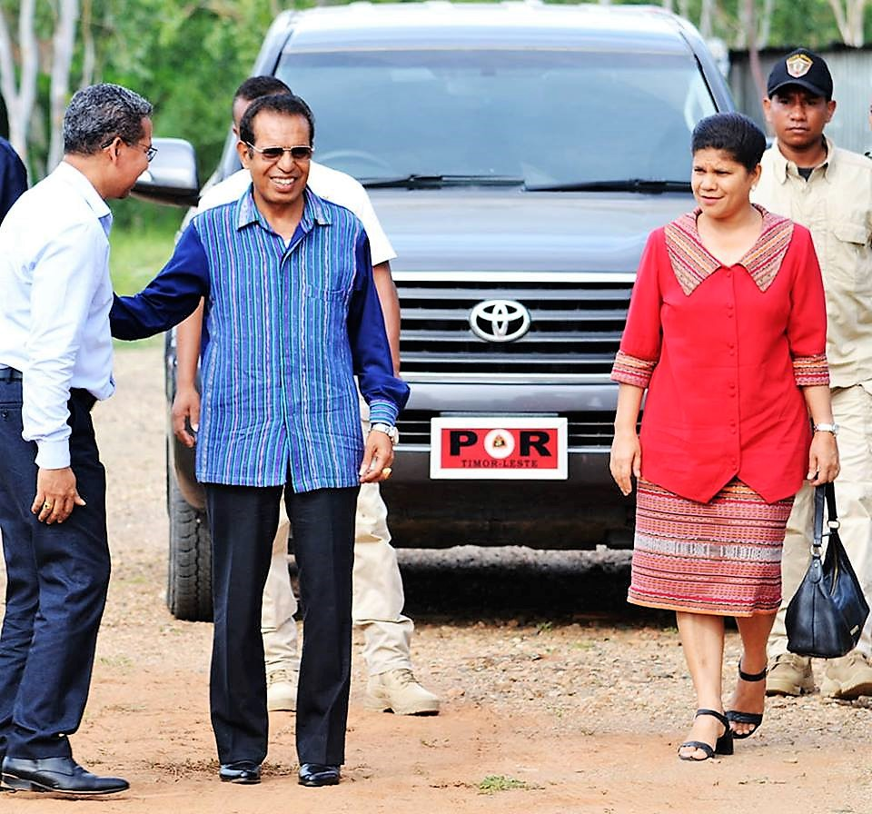 President Taur Matan Ruak, his wife Isabel da Costa Ferreira and their official car at Jardim dos Heróis e Martires da Pátria, Metinaro